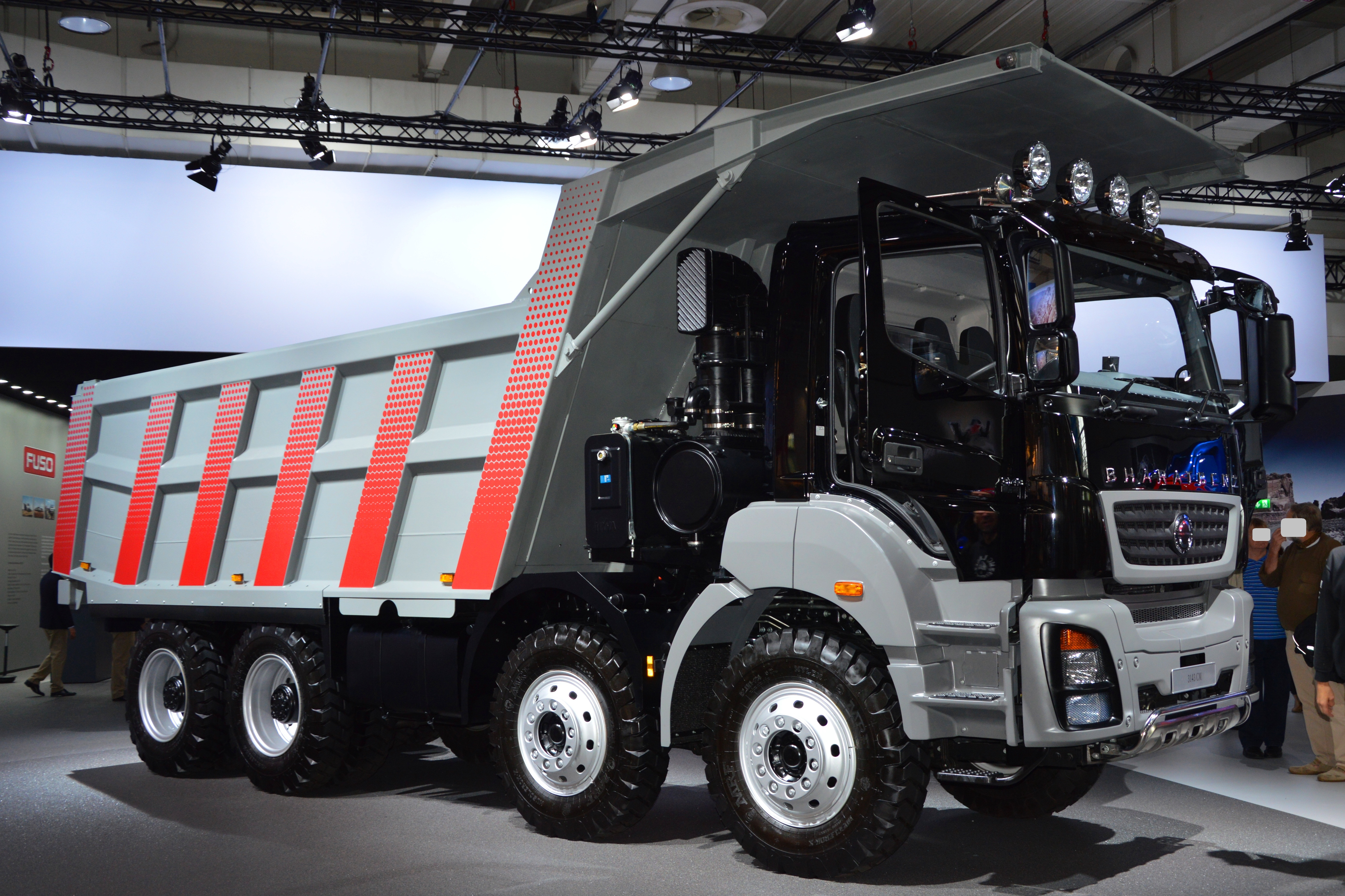 BharatBenz 3143 Concept Mining truck. Based on platform MB Axor. GVW: 48 t. Engine: Diesel 12-ltr. in-line 6 cylinder. Power: 430 hp. Photo taken at exhibition IAA 2014 in Hanover, Germany